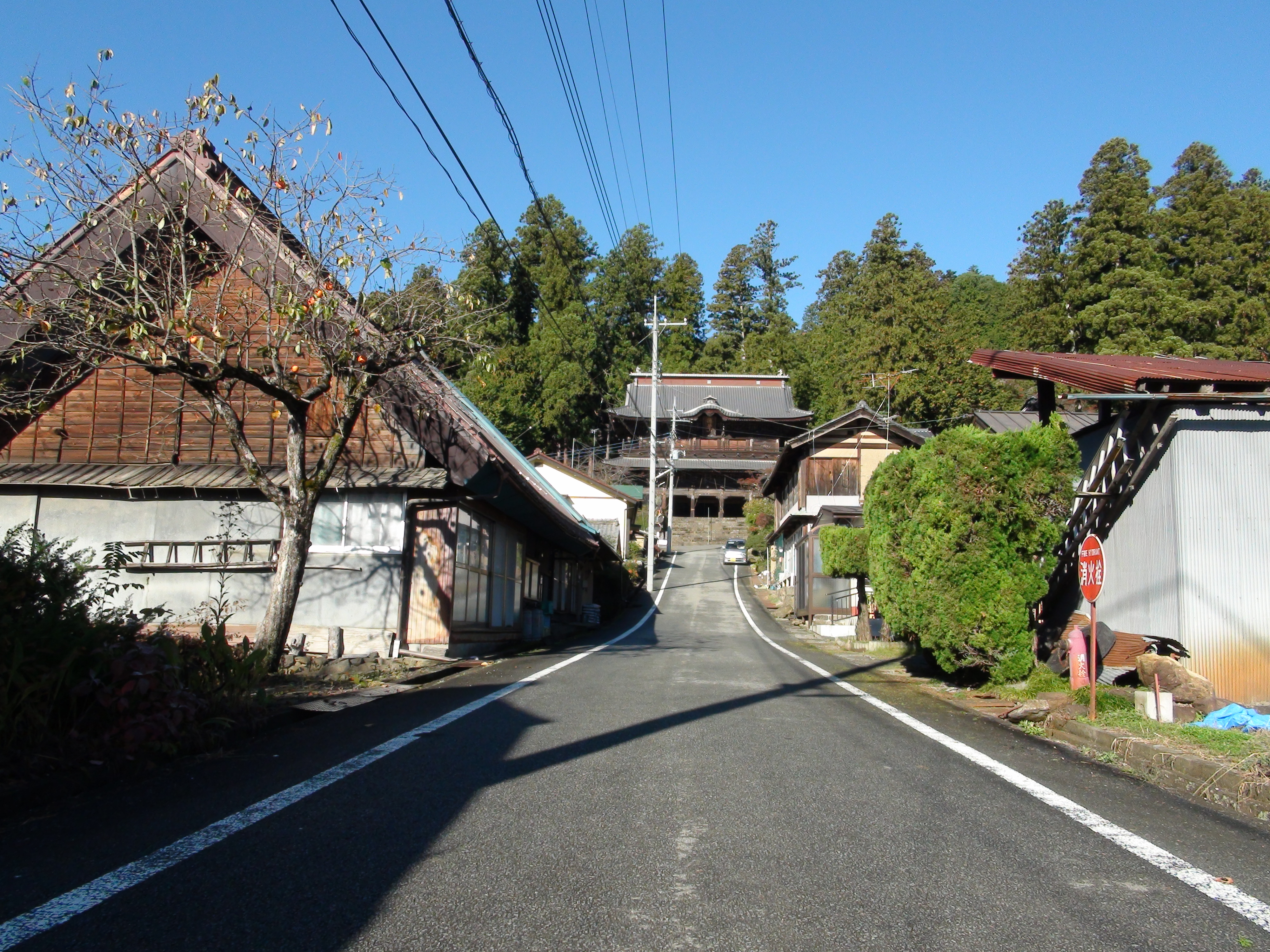 Myohoji entrance of old houses fujikawa,Yamanashi